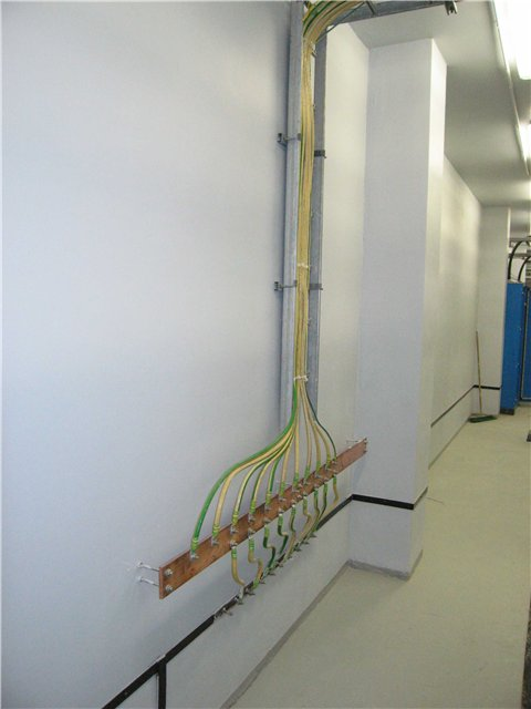 Main earthing busbar. Quite stranпe way to line from busbar to rods.